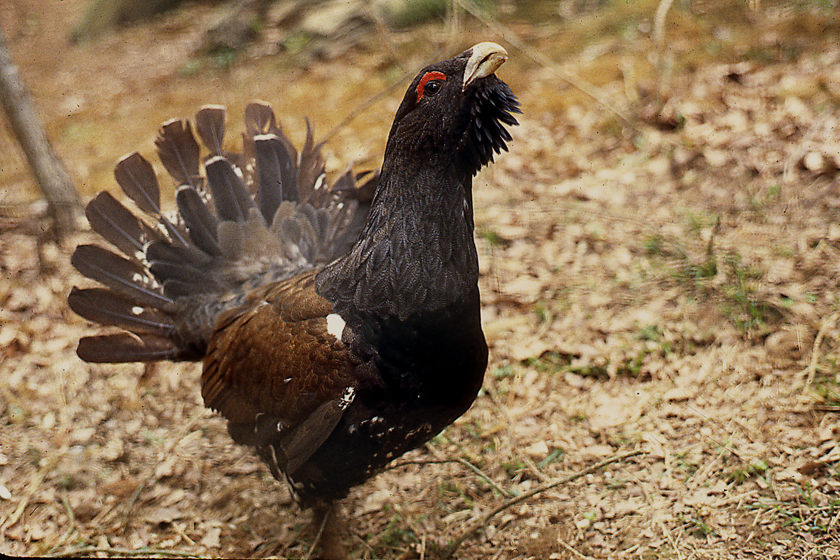 Male Western Capercaillie, Tetrao urogallus, in courting behaviour.